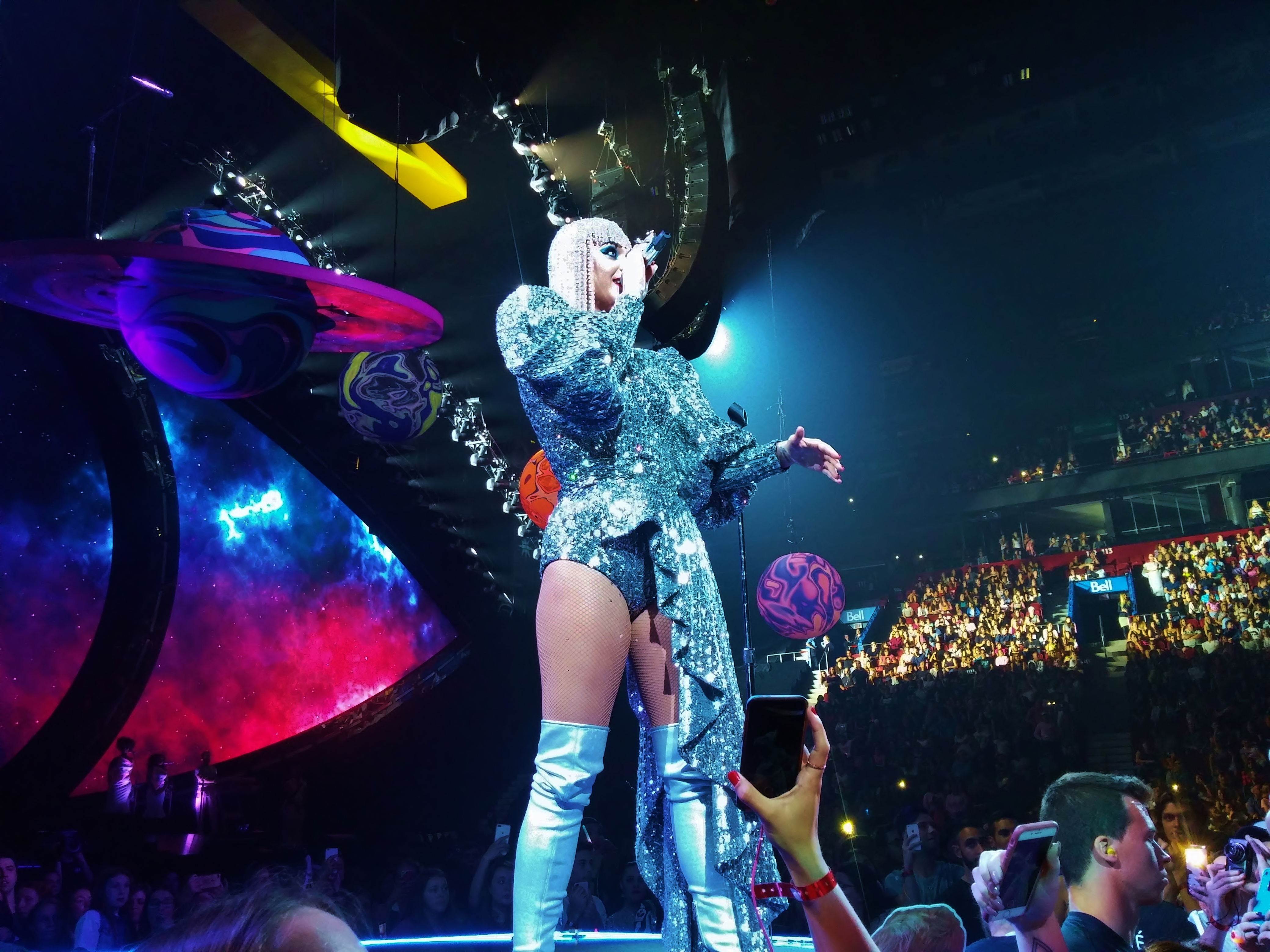 Katy Perry, Witness Tour, Bell Center, Montréal, 19 September 2017 (7)